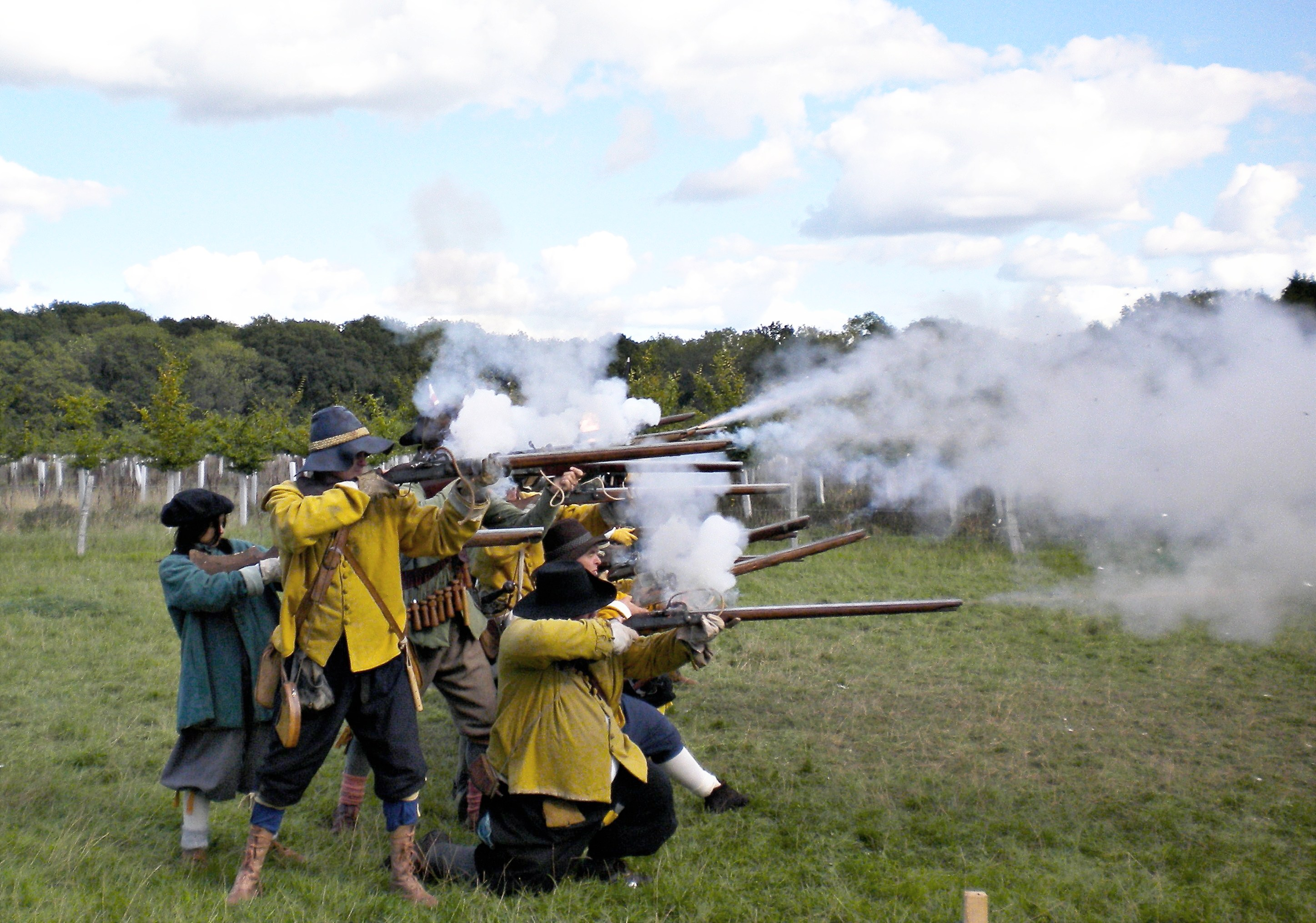 Musket volley by members of the Sealed Knot at Fernhurst Furnace, West Sussex, England.